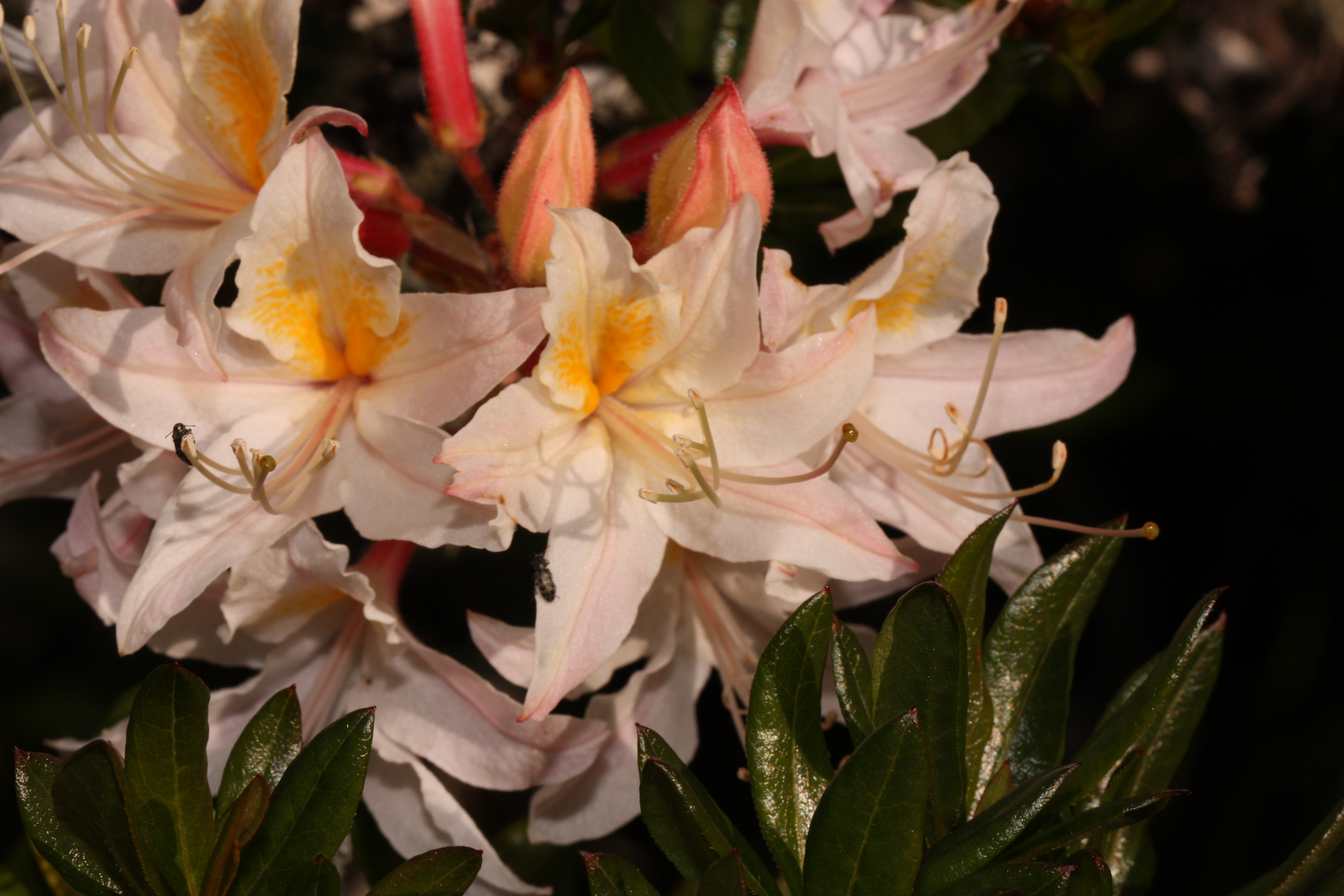 Western Azalea Viewpoint location: Little Falls Trail, T. J. Howell Botanical Drive Viewpoint elevation: 383 meter (1257 ft) Location source: Garmin GPSmap 60CSx Location Datum: WGS84